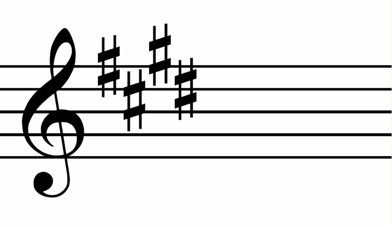 E major/C sharp minor